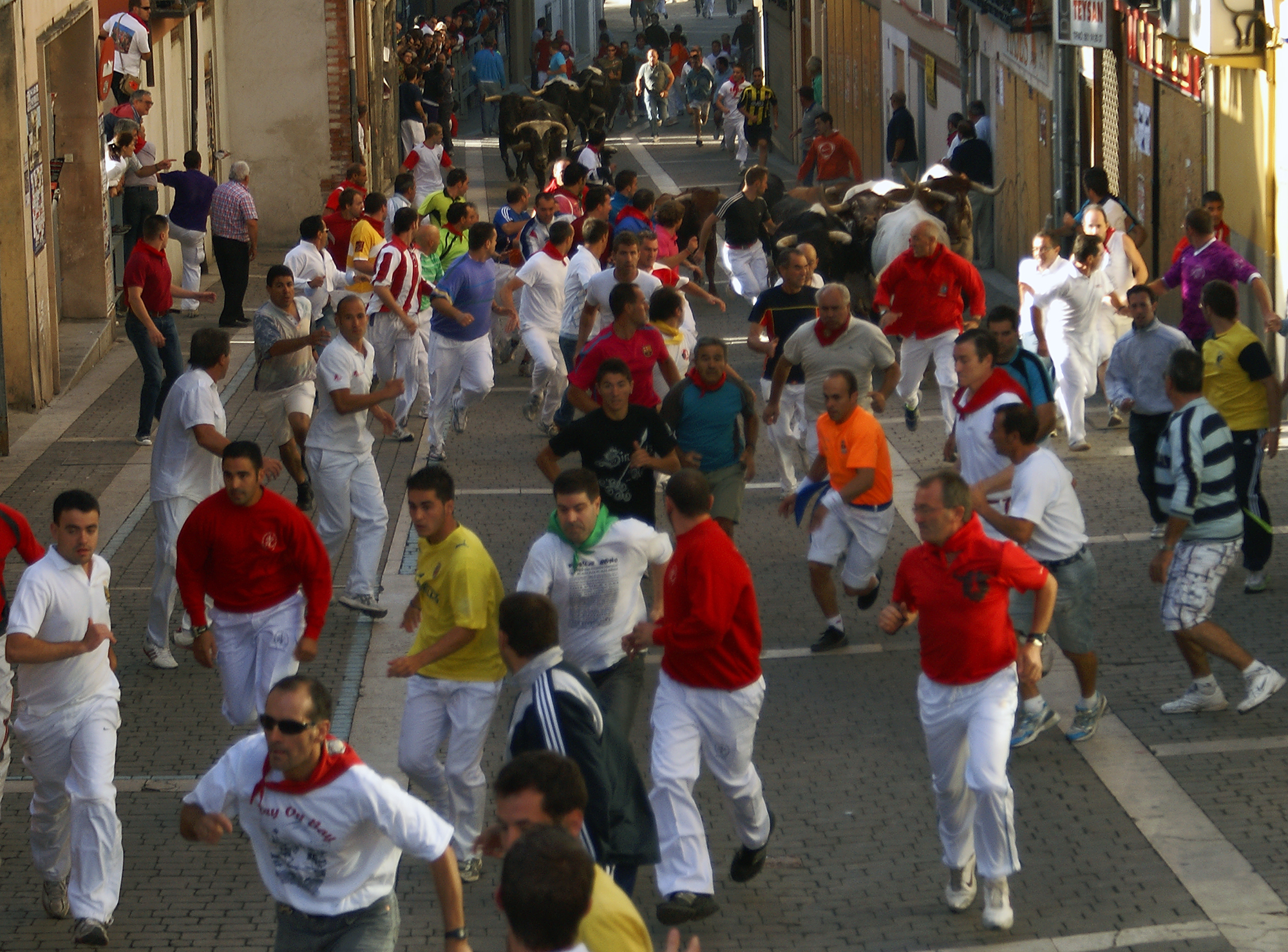 Running of the bulls in Cuéllar, provincia de Segovia, Spain.